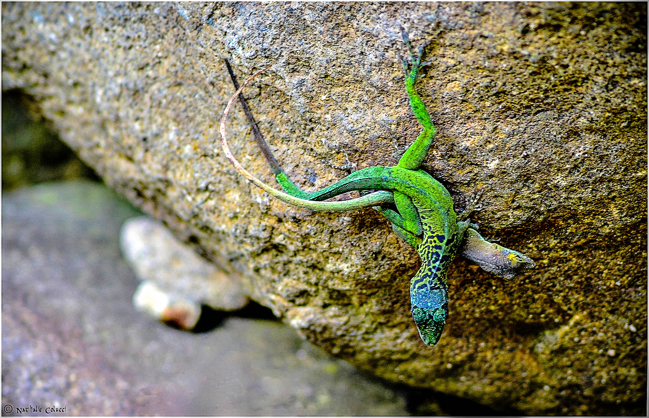 Anolis marmoratus alliaceus and Anolis marmoratus inornatus